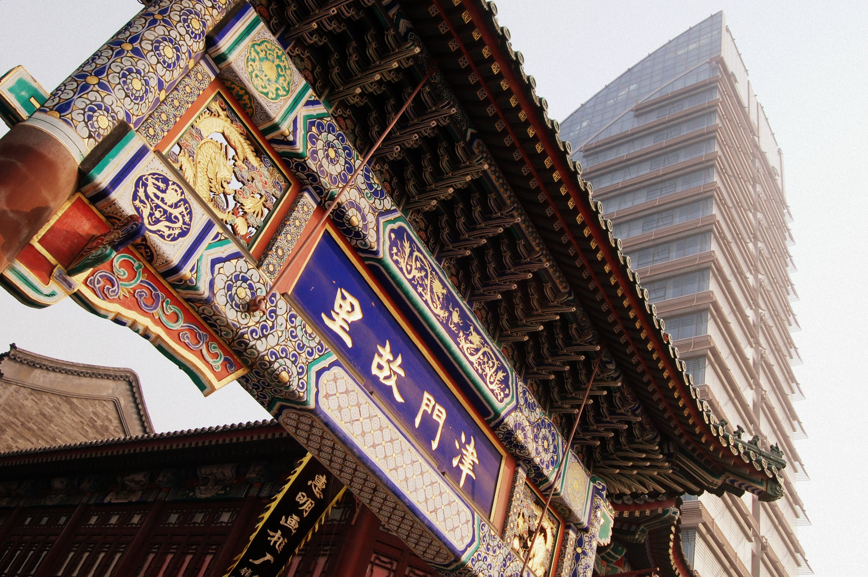 October 2010 津门故里 古文化街